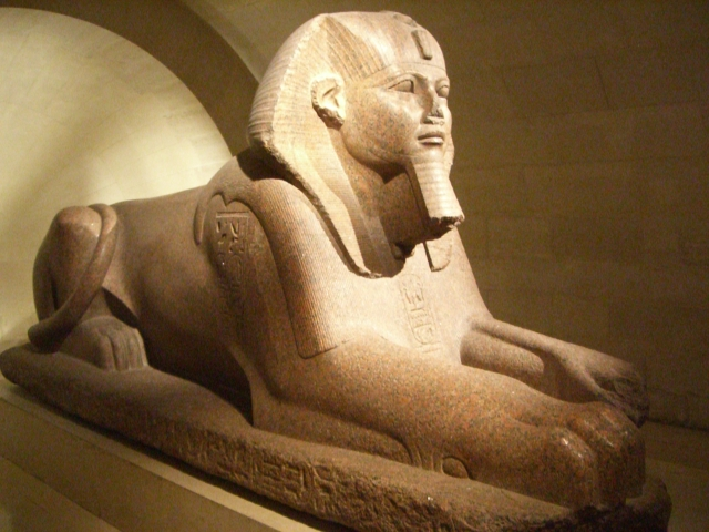 Great sphinx bearing the names of Amenemhat II (12th Dynasty), Merneptah (19th Dynasty) and Shoshenq I (22nd Dynasty).